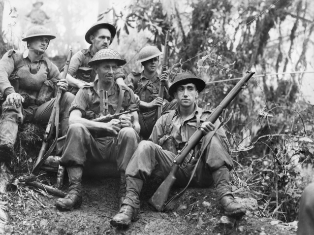 Troops from the Australian 2/9th Infantry Battalion resting prior to joining the fighting to capture Shaggy Ridge, New Guinea